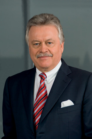 Hans-Dieter Brenner, Chairman of the Board of Managing Directors of the Helaba